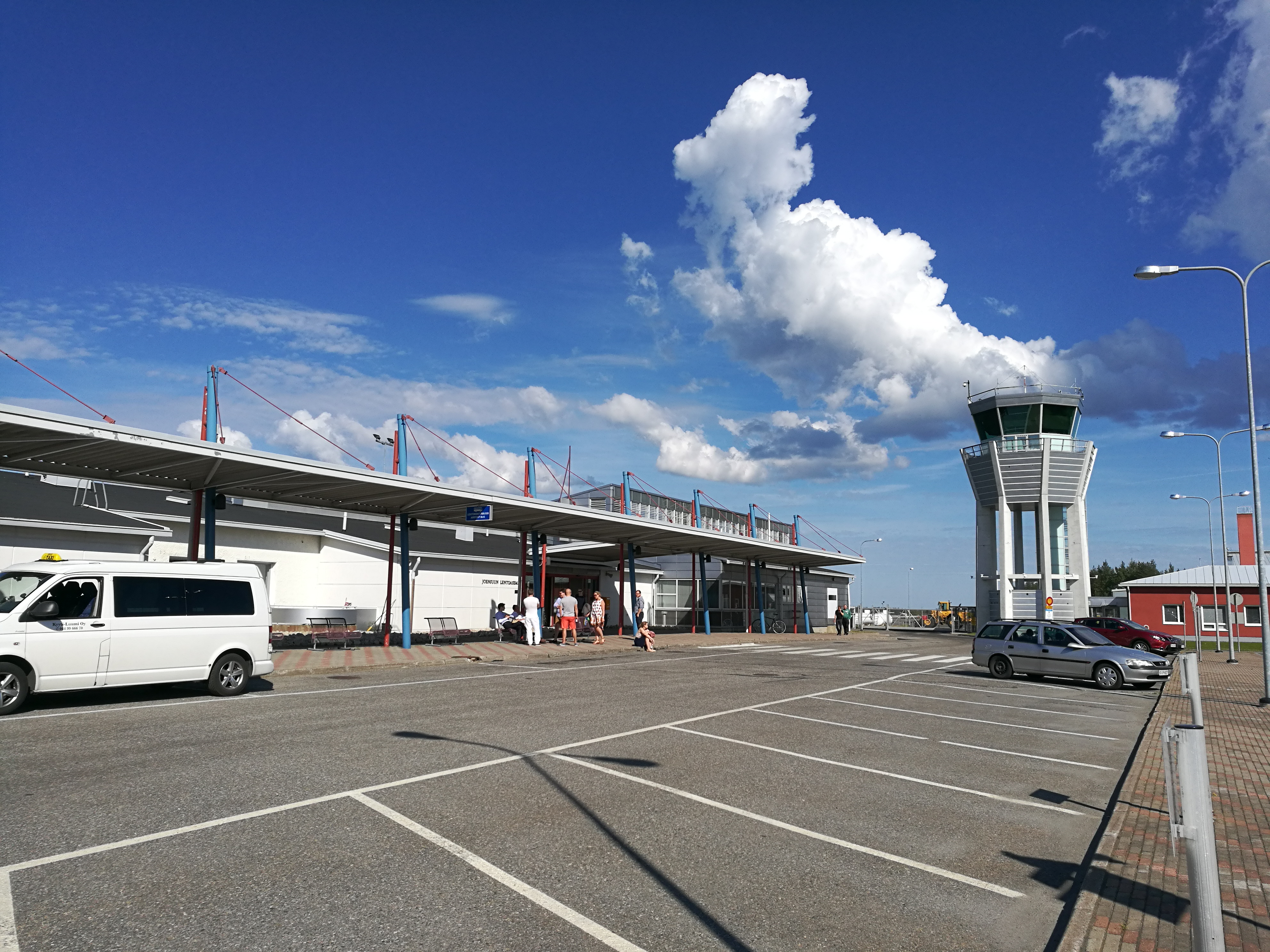 Terminal of Joensuu Airport in July 2017.